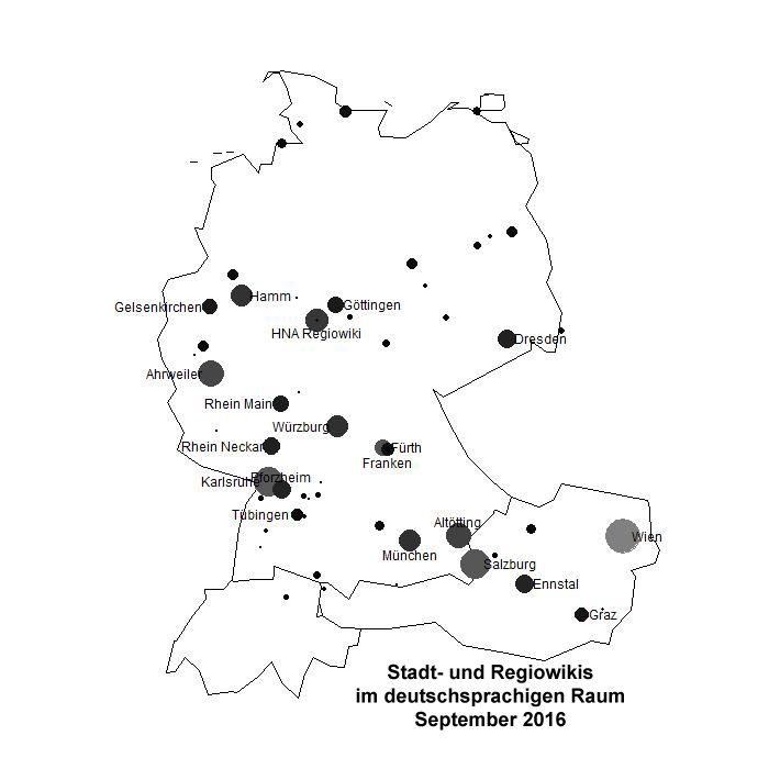 This info chart show regional wikis and city wikis in Germany, Austria and Switzerland. The size of the plotting symbol is proportional to the number of articles in the wiki. The underlying data was collected in September 2016. The top 20 wikis have an additional label.